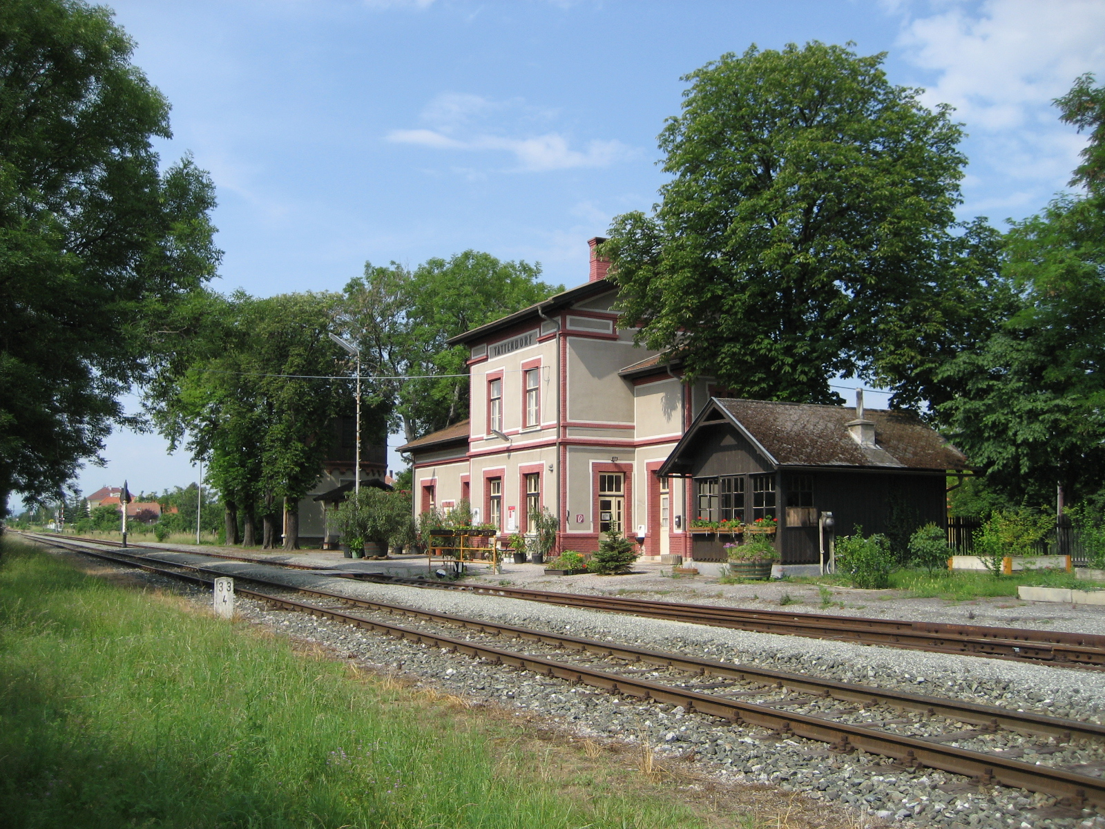 Tattendorf train station in Lower Austria